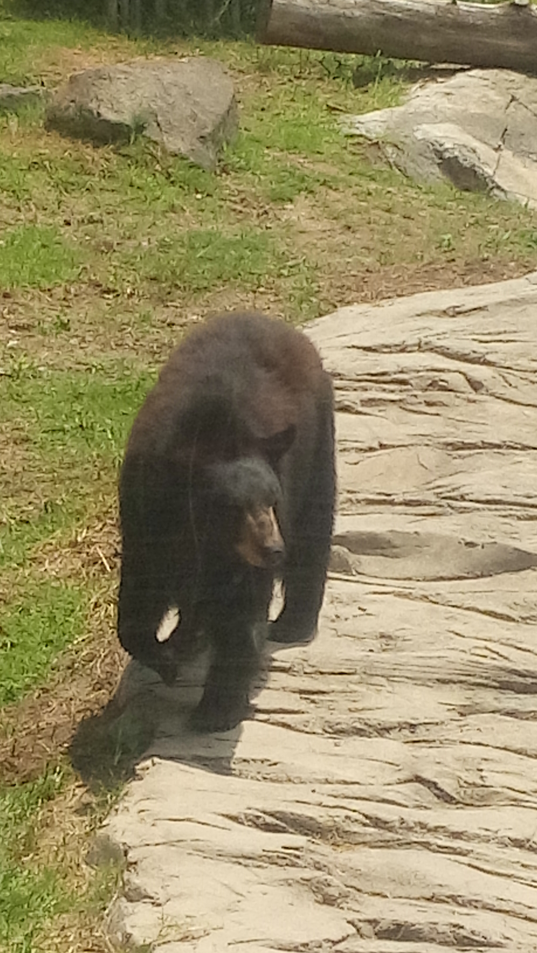 This I think is a teenage American black bear at the Guadalajara Zoo in Mexico.